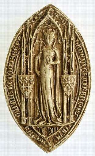 Jeanne I of Navarre - her seal